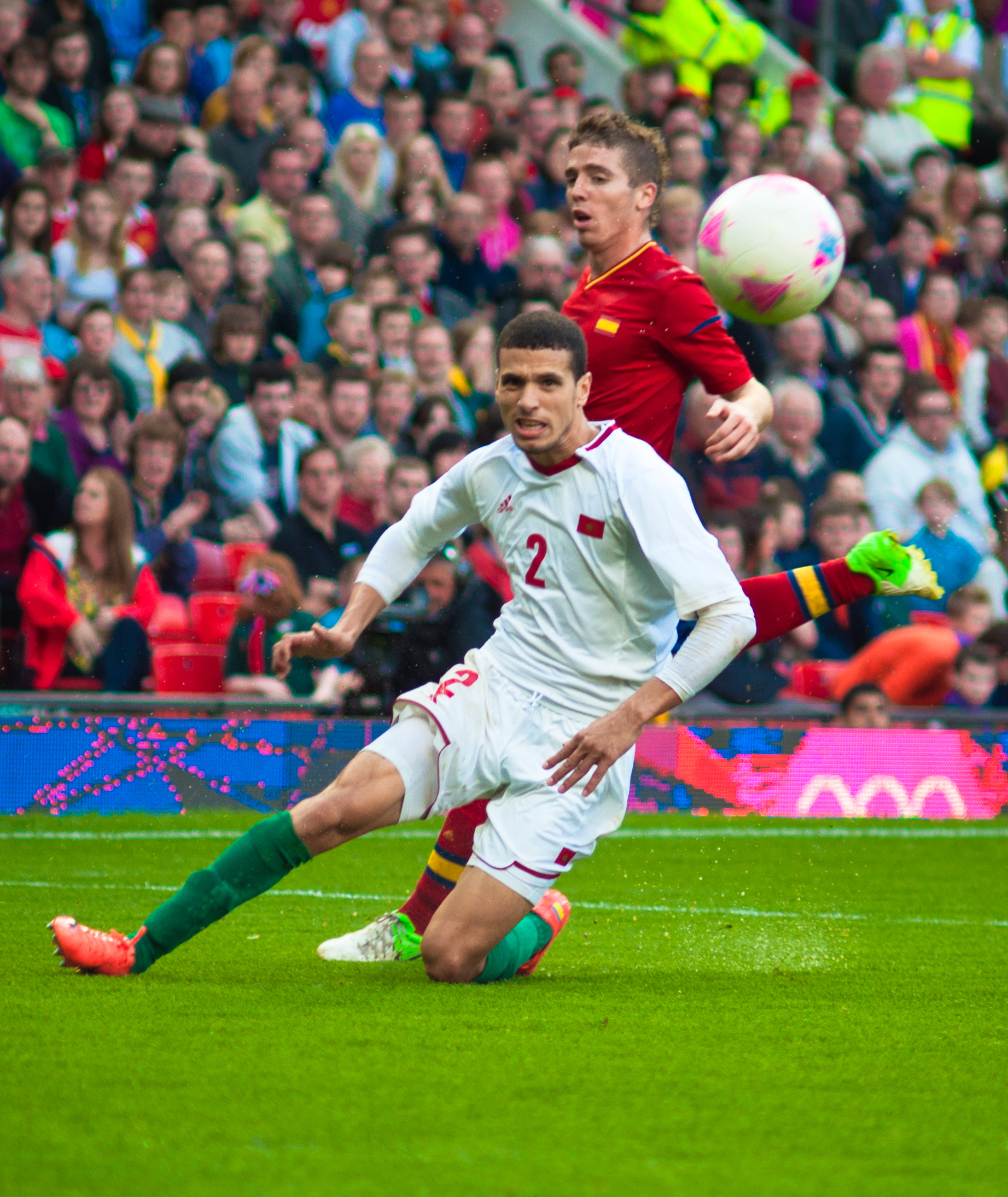 Abdelatif Noussir and Iker Muniain (background).